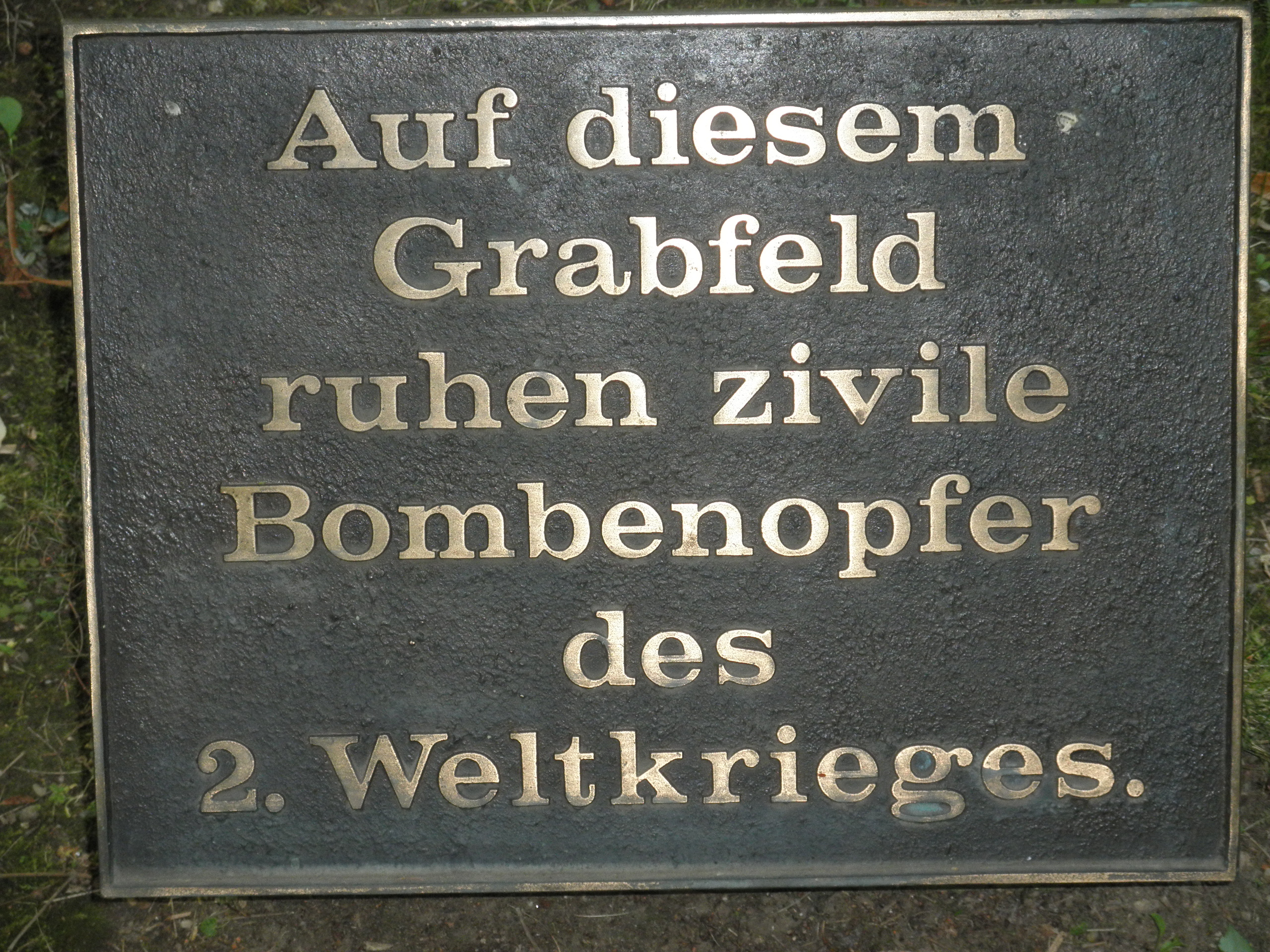 Bombing Victims in Naumburg (Saale)